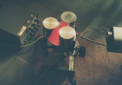 Gaspard-Rice scattering system being tested experimentally with a laser.